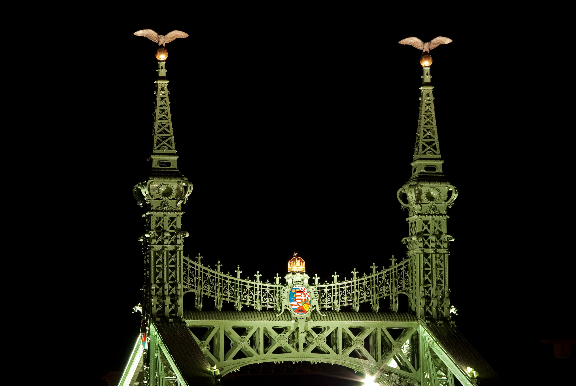 Close view of the pillars of Liberty Bridge, Budapest